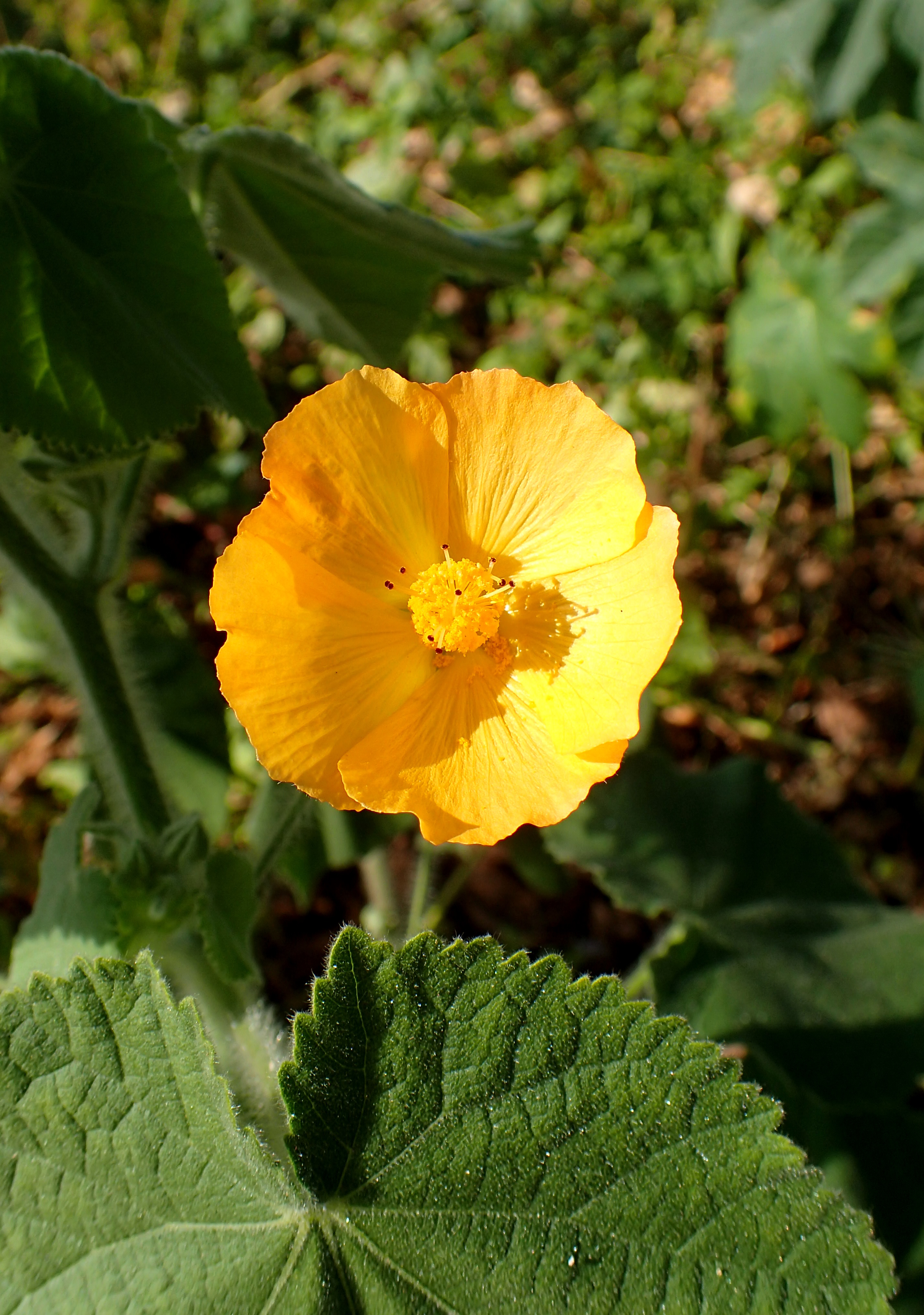 Abutilon grandifolium in Puerto de la Cruz, Tenerife, Canary Islands